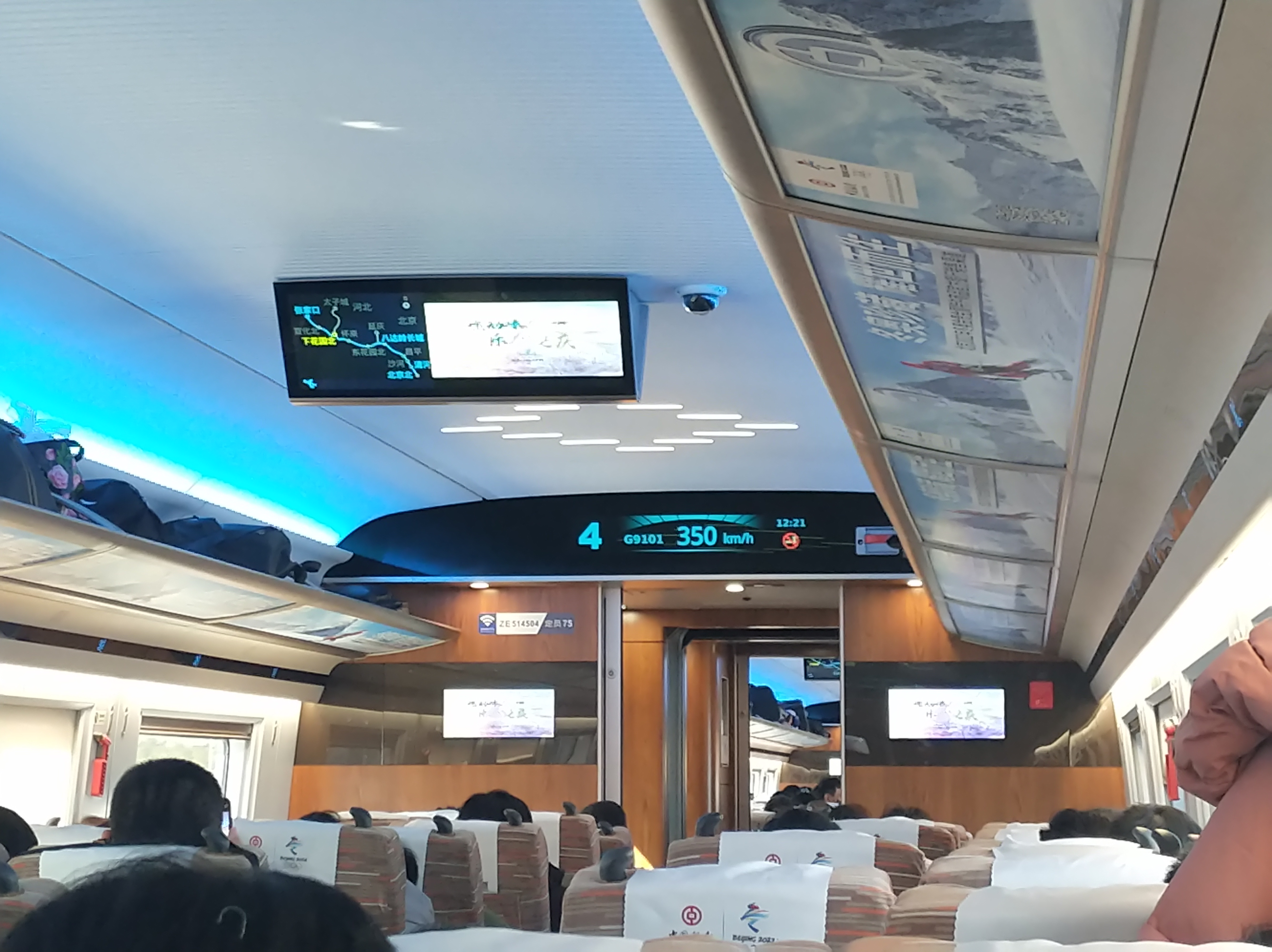 Speed display screen of CR400BF-C-5145, with the maximum speed of 350km/h.